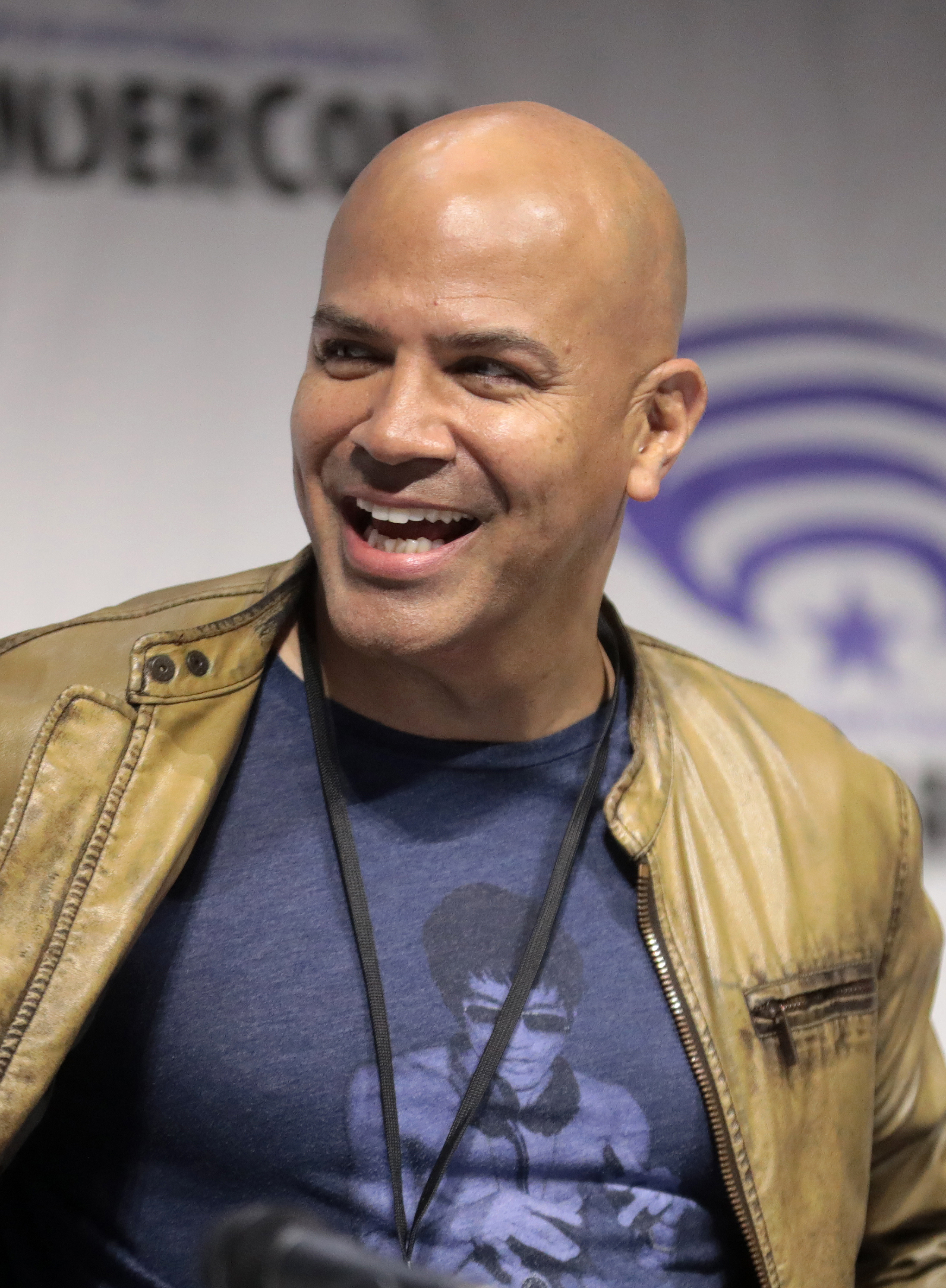 Philip Anthony-Rodriguez at the 2019 WonderCon in Anaheim, California.